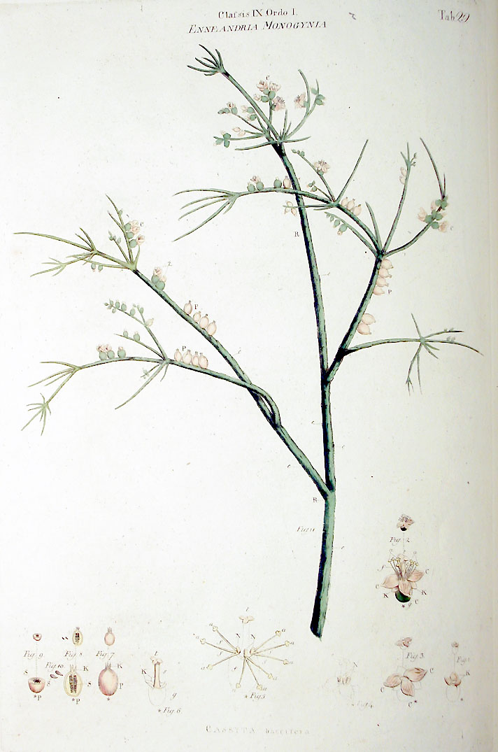 Cassyta baccifera